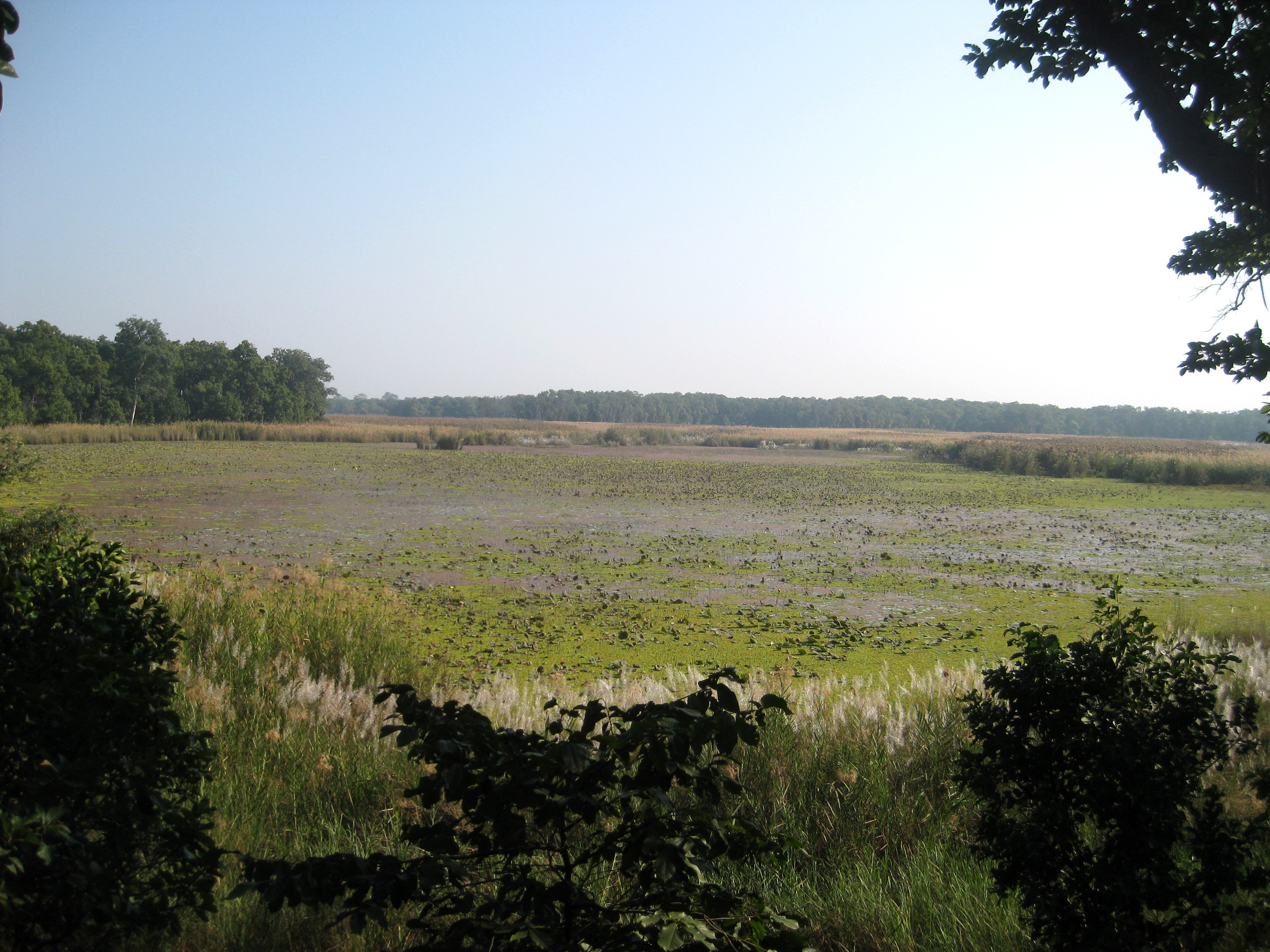 Ranitaal: a beautiful lake inside the Suklaphata Wildlife Reserve, Nepal